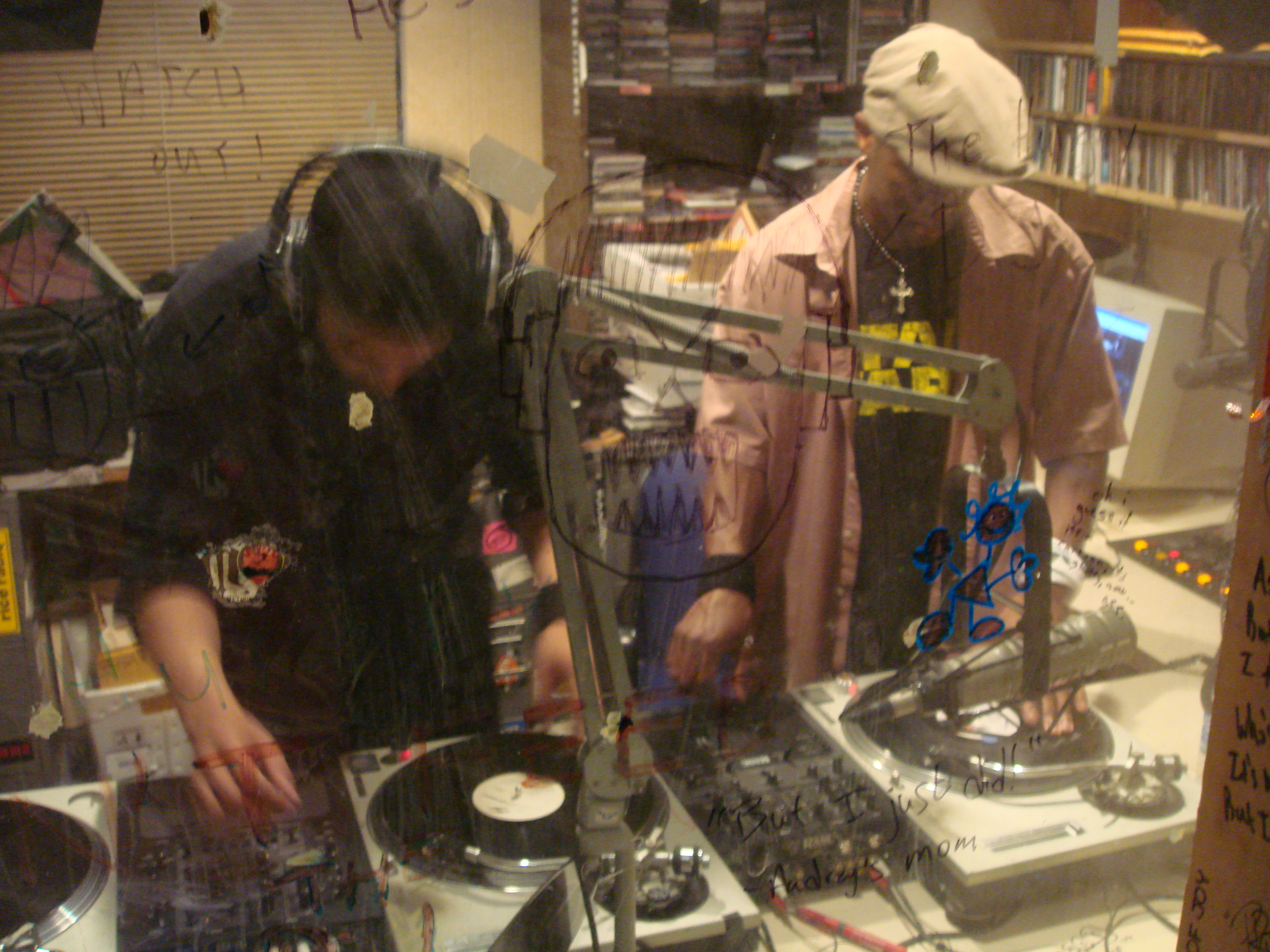 DJ Hypnotize and Baby Cee DJ'ing Flckr By-sa image